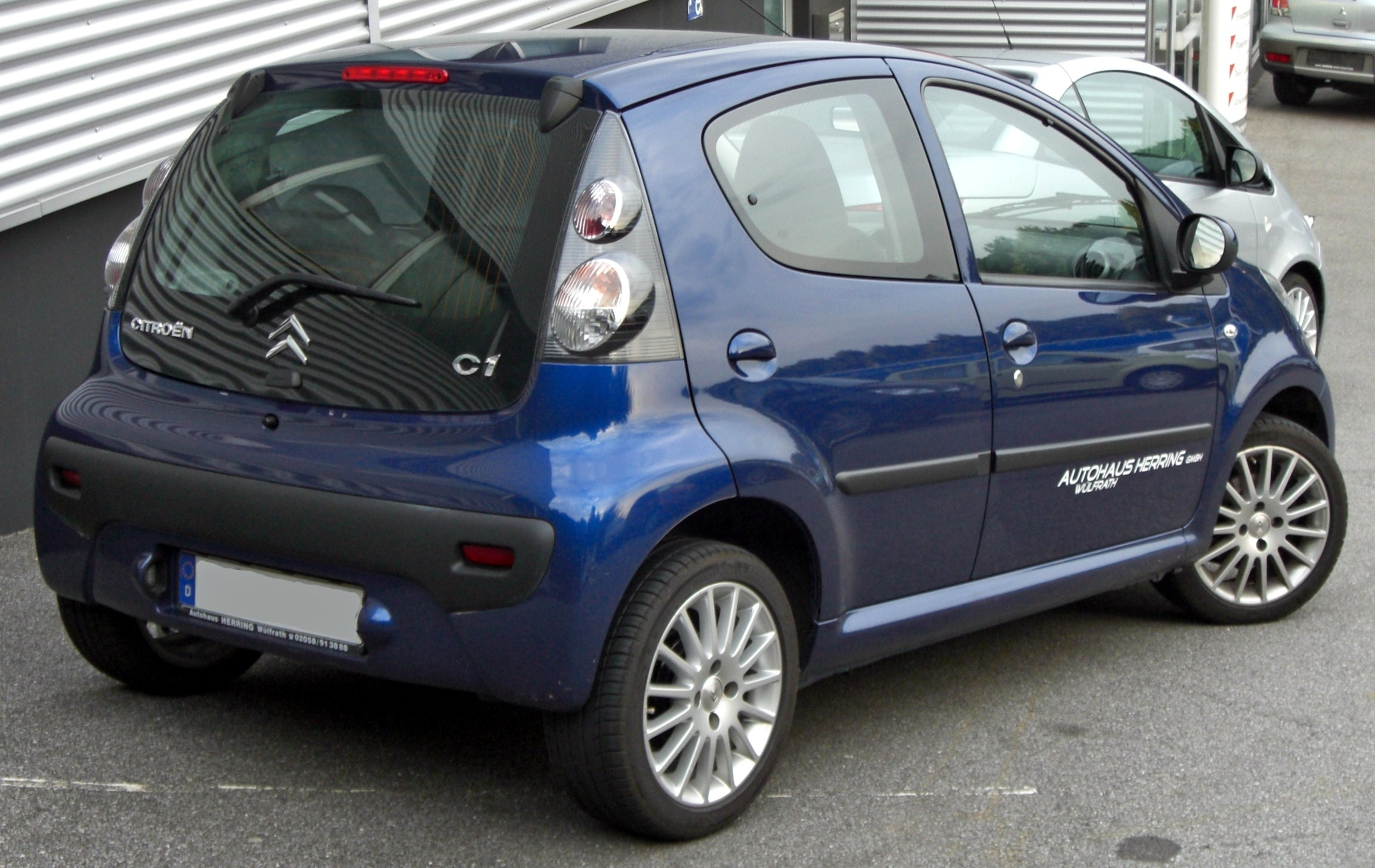 Citroën C1